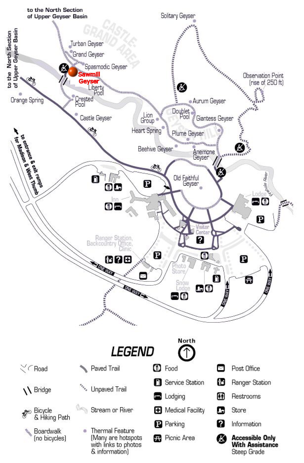 Map of southern section, Upper Geyser Basin, Yellowstone National Park with Sawmill Geyser annotated